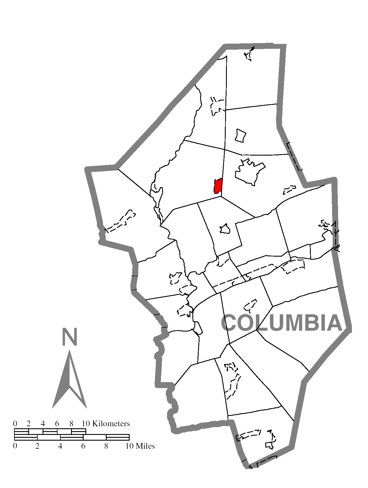 A map of Columbia County showing Rohrsburg, Pennsylvania (alternate) highlighted on the map.